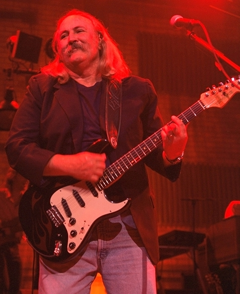 David Crosby performing in 2006